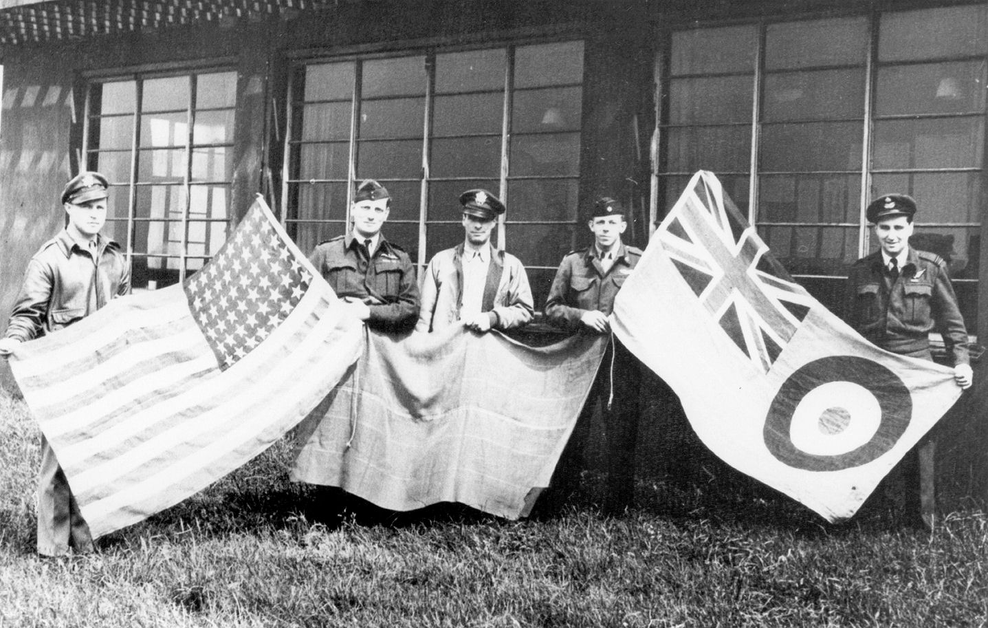 British and American personnel hold up flags at the 496th Fighter Training Group base in Goxhill. Printed caption on reverse: 'P.H.T GREEN COLLECTION PLACE: Goxhill, DATE: 44.'